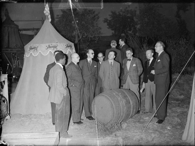 Foreign Correspondents Visit British Film Studios, Denham, Buckinghamshire, England, UK, 1943 Overseas newspaper correspondents inspect a beer barrel and tent 'at Agincourt', part of the set built for the production of Henry V at Denham Studios.